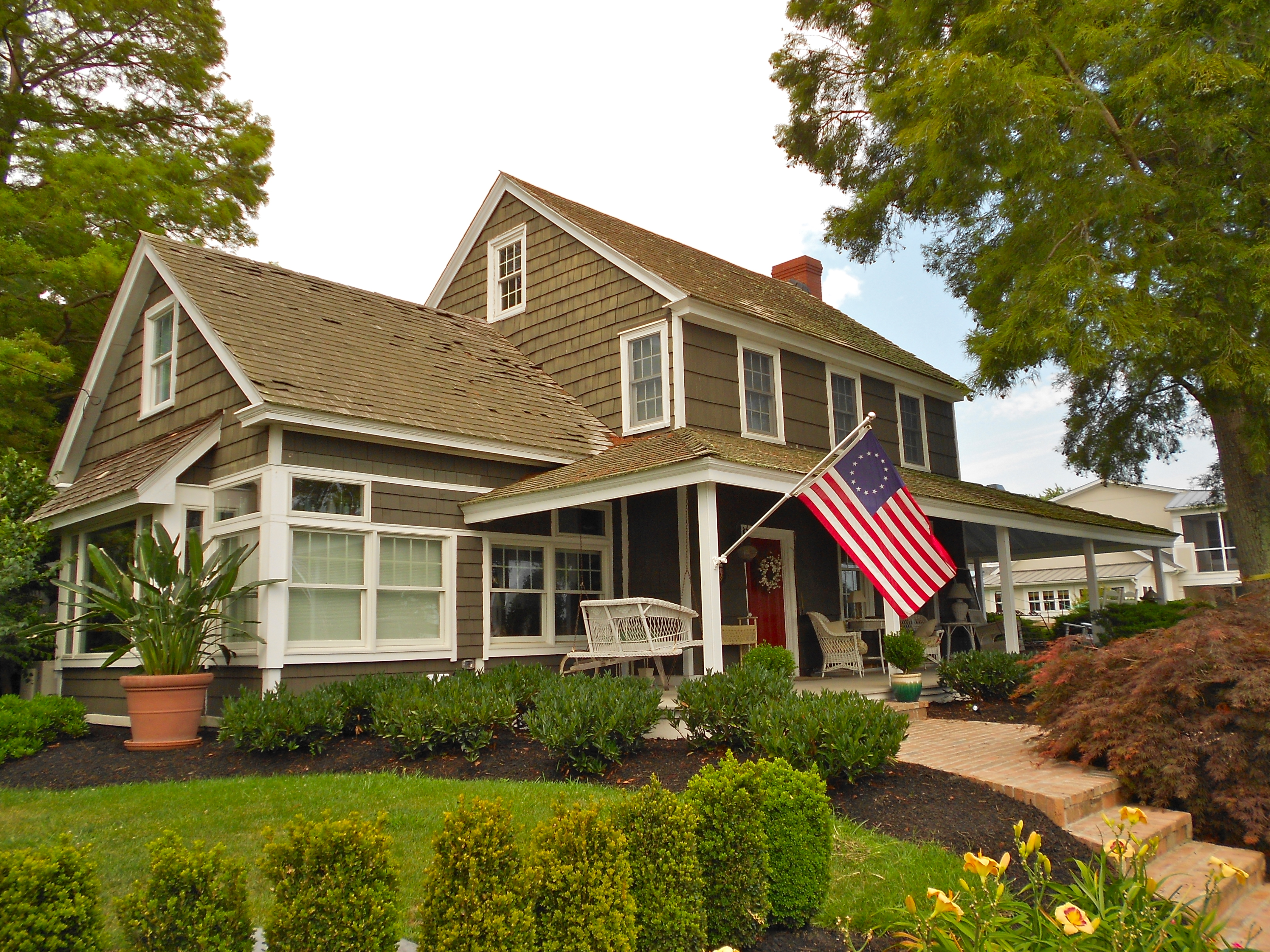 William Russell House on the NRHP since April 18, 1977. At 410 Pilot Town Rd., Lewes, Sussex County, Delaware